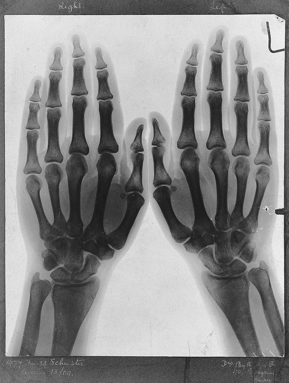 Two hands, viewed through x-ray. Photoprint from radiograph after Sir Arthur Schuster, 1896.